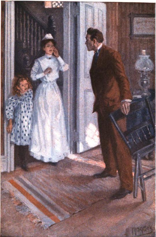 Frontispiece by Frances Rogers, appearing in 1910 Kate Langley Bosher novel "Mary Cary"